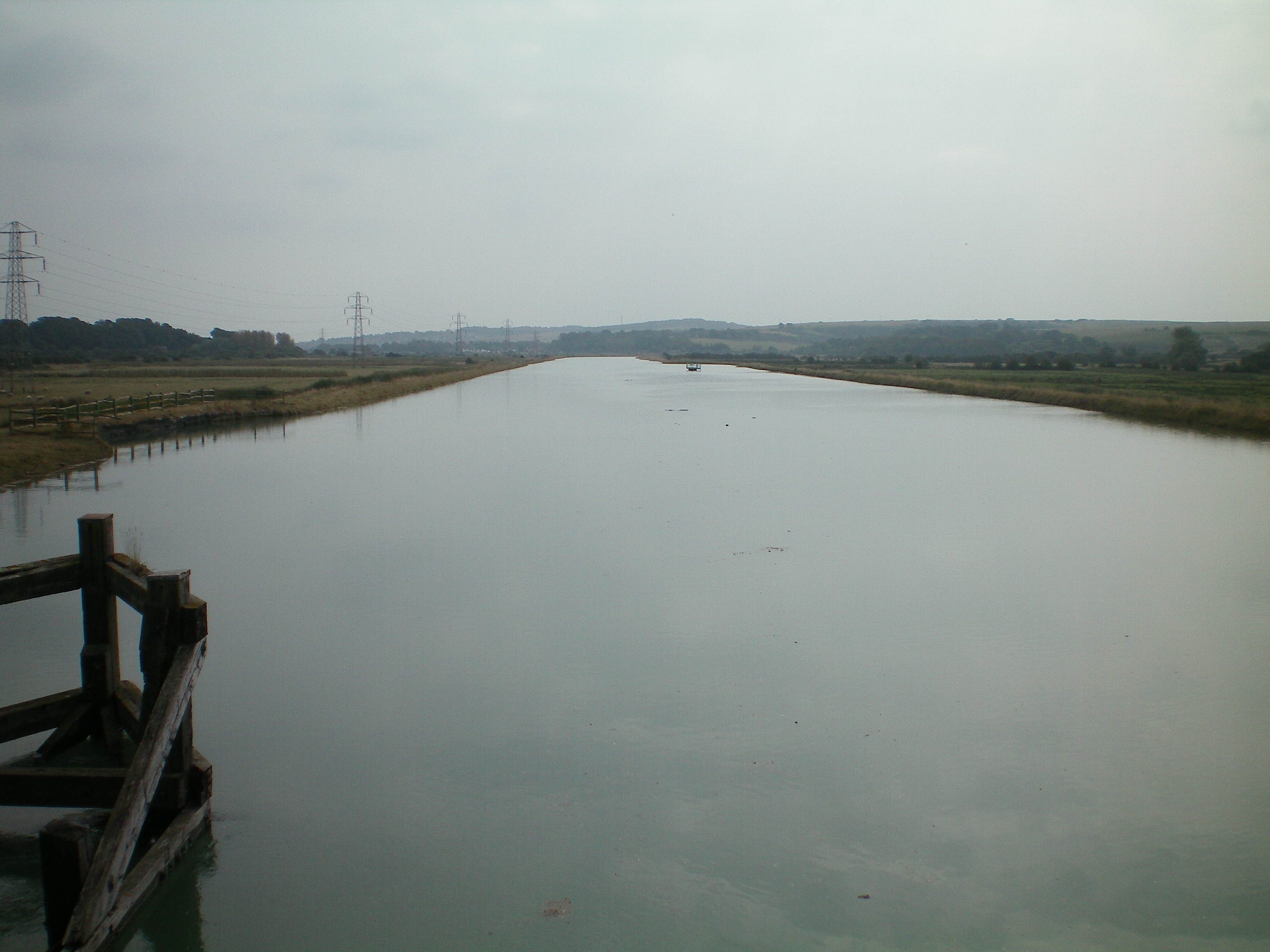 Looking south from Southease swing bridge at high tide.